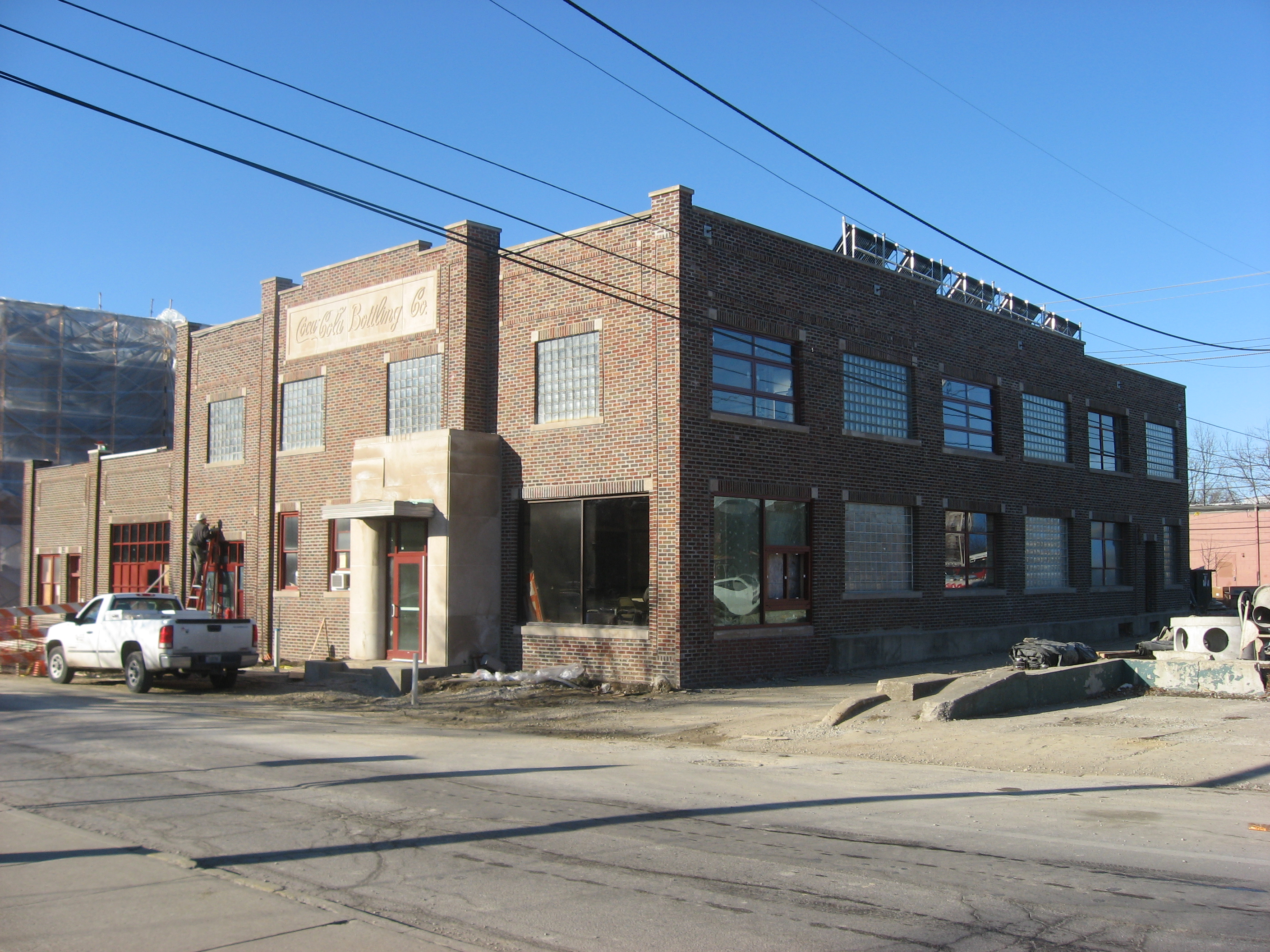 Northern and eastern sides of the Coca-Cola Bottling Company Plant, located at 318 S. Washington Street in Bloomington, Indiana, United States. Built in 1924, it is listed on the National Register of Historic Places.